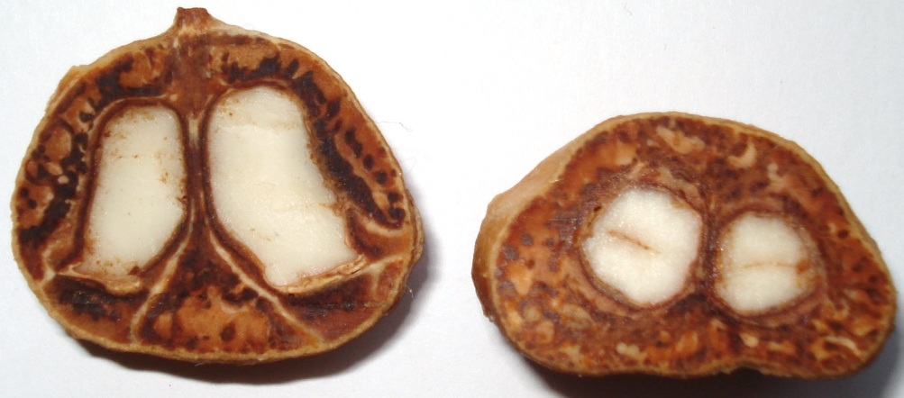 Sclerocarya birrea - cut seeds